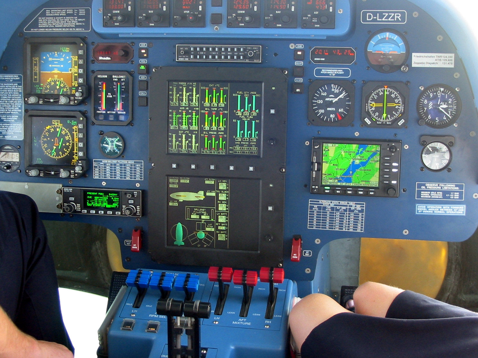 Germany, Baden-Württemberg, impressions of a flight with airship D-LZZR